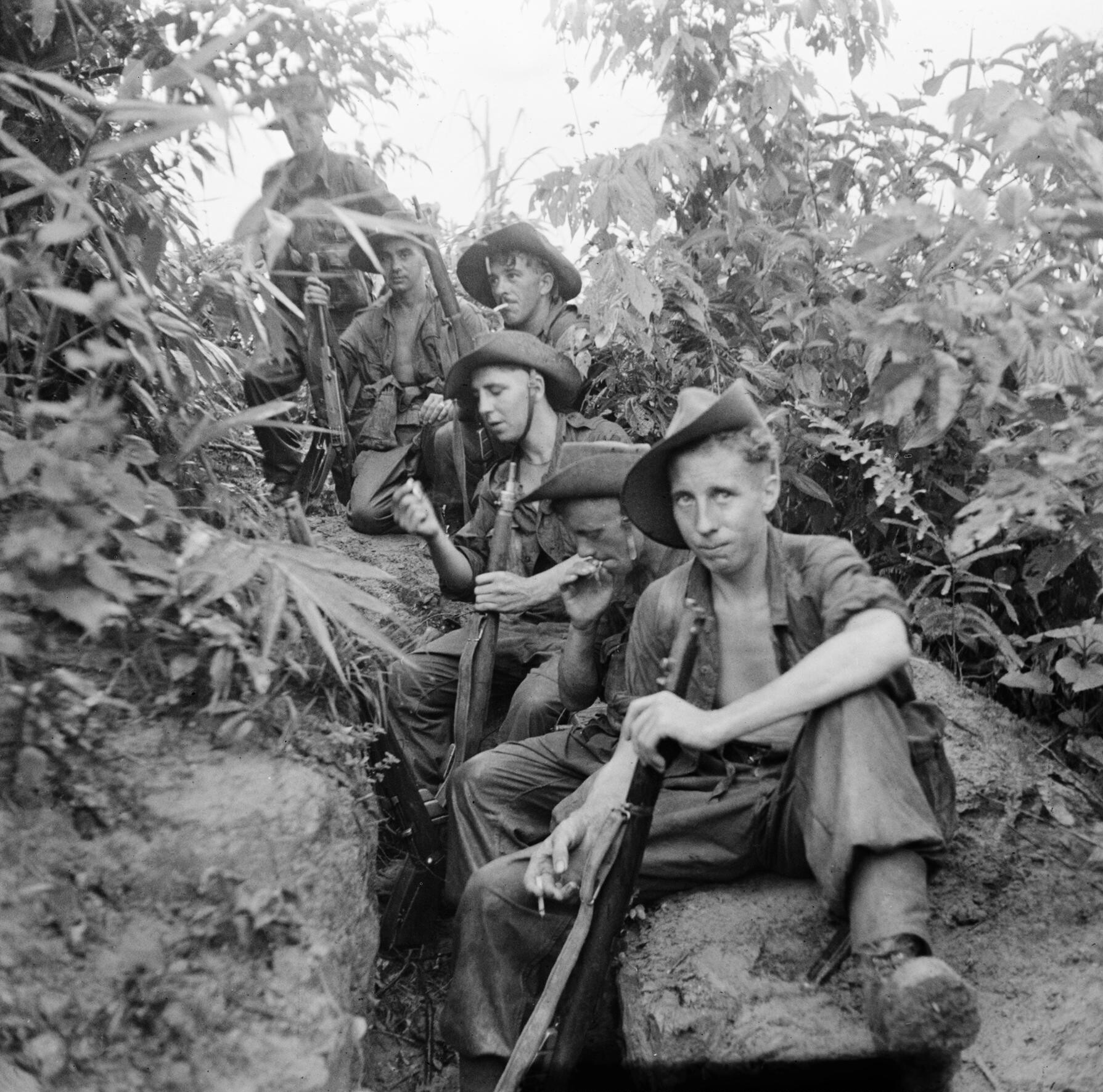 Men of the 2nd Battalion, York and Lancaster Regiment rest while on a patrol in Burma, July 1944. Men of the 2nd York and Lancaster Regiment rest while on patrol, July 1944.